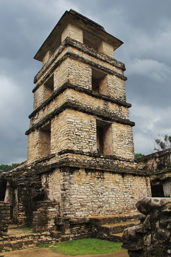 The Observation Tower at Palenque which is part of the Palace complex.